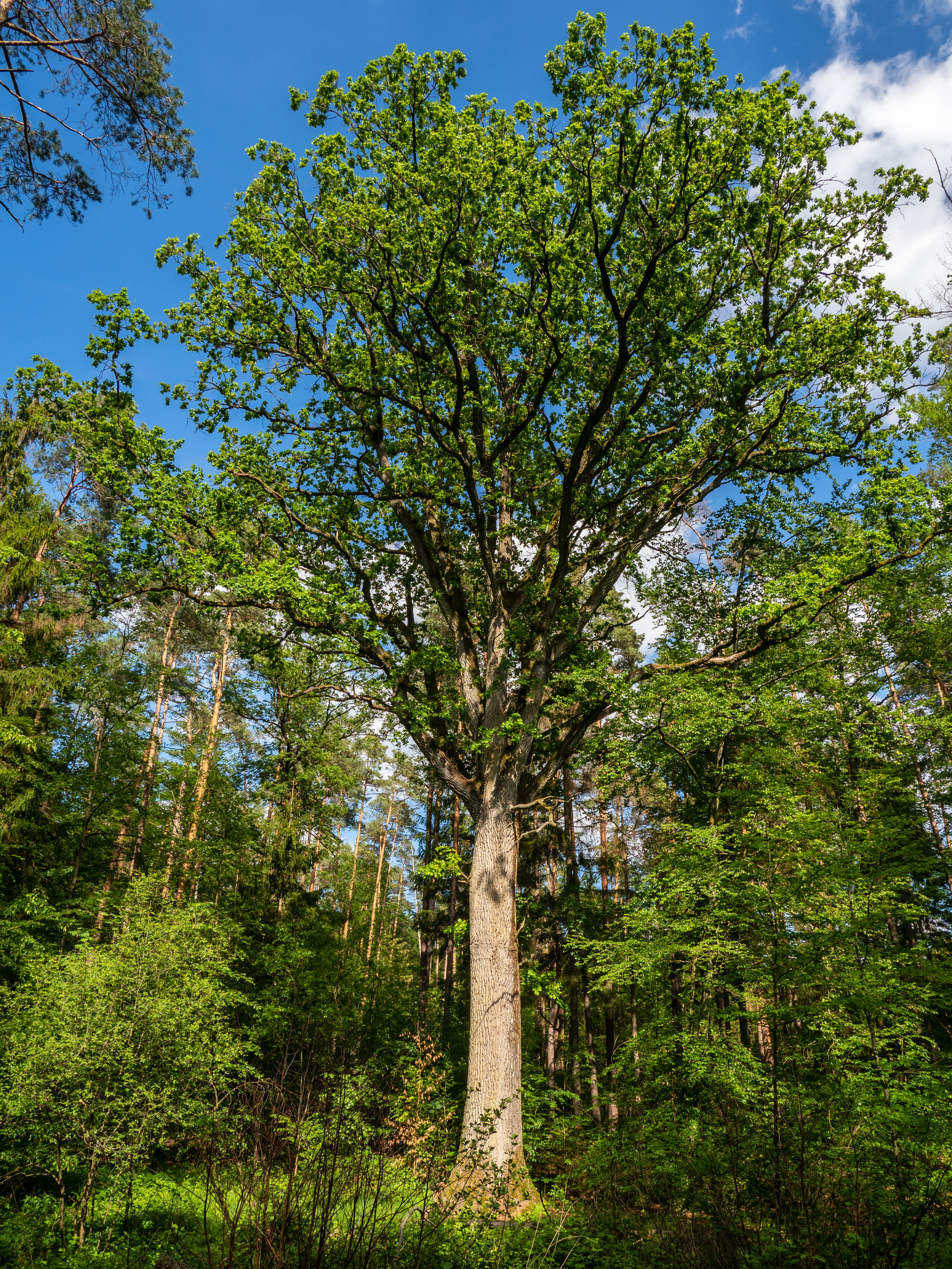 Kunigunden oak in the Hauptsmoorwald in Bamberg